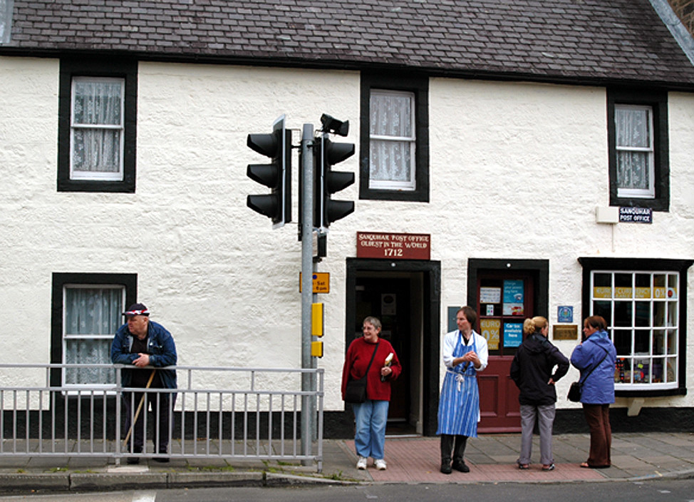 The Post Office, Sanquhar, Scotland.